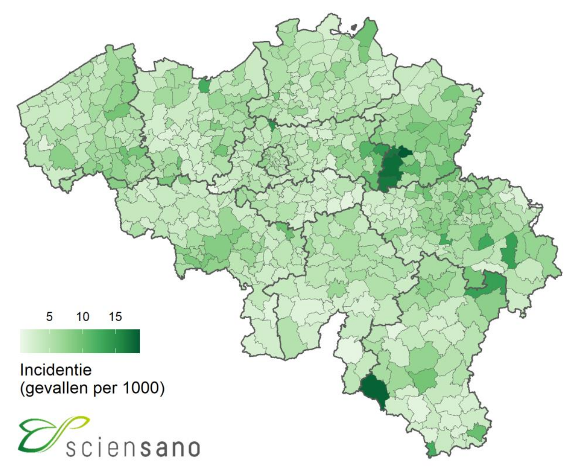 Spread of COVID19 in Belgium